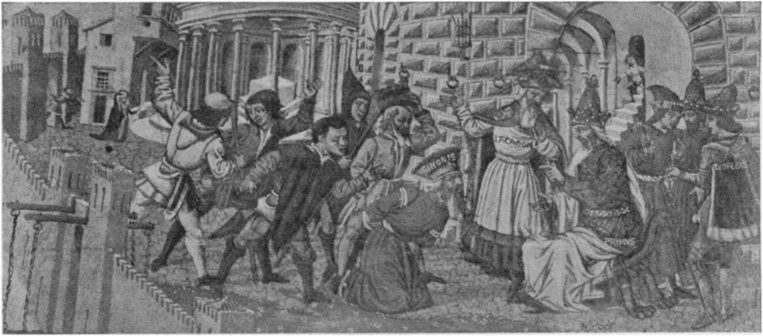 Miniature of the Codex Riccardianus 492 folium 76v.